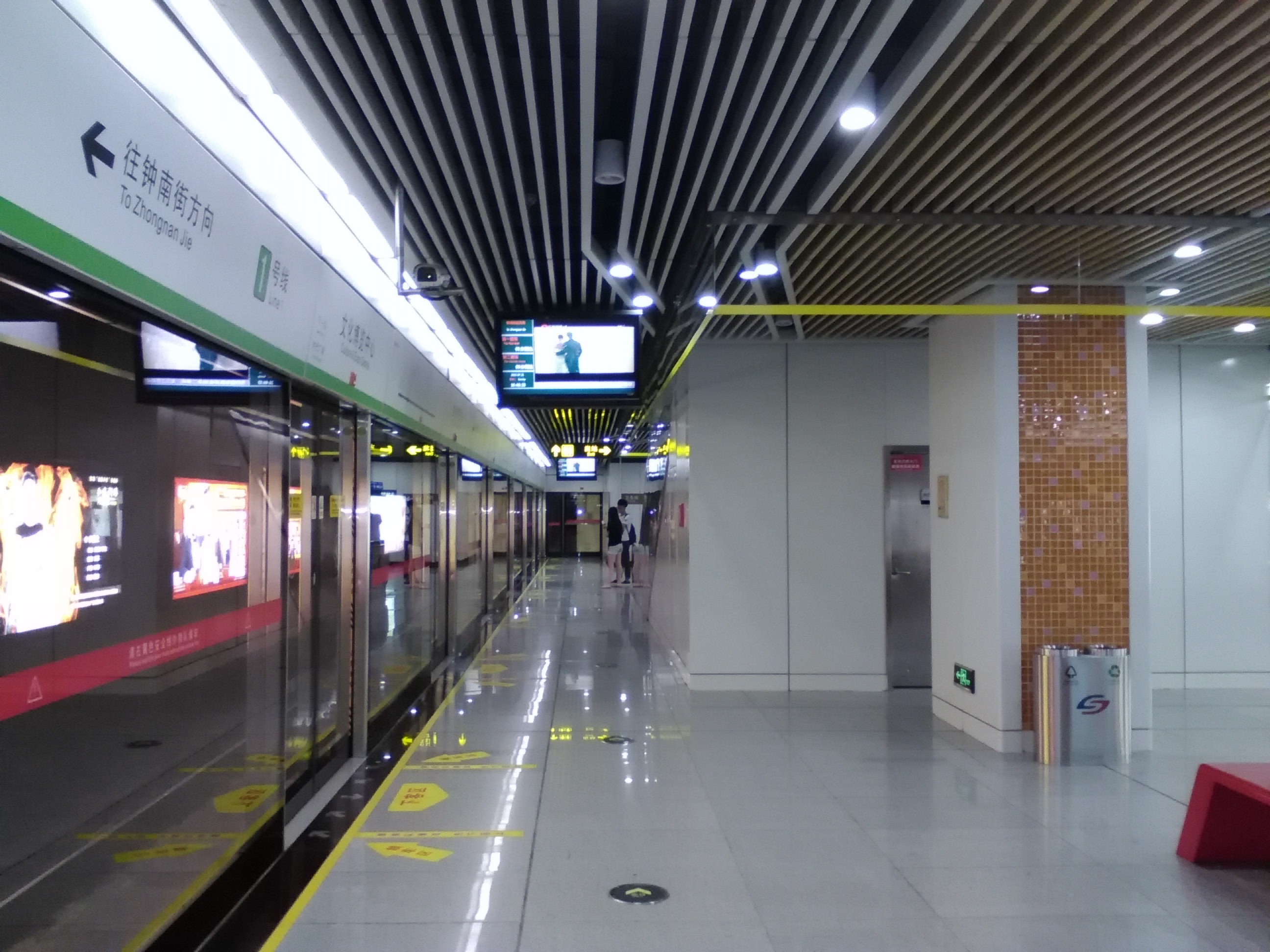 The platform of Culture and Expo Centre Station of Line 1, Suzhou Rail Transit.中文（中国大陆）: 苏州轨道交通1号线文化博览中心站站台